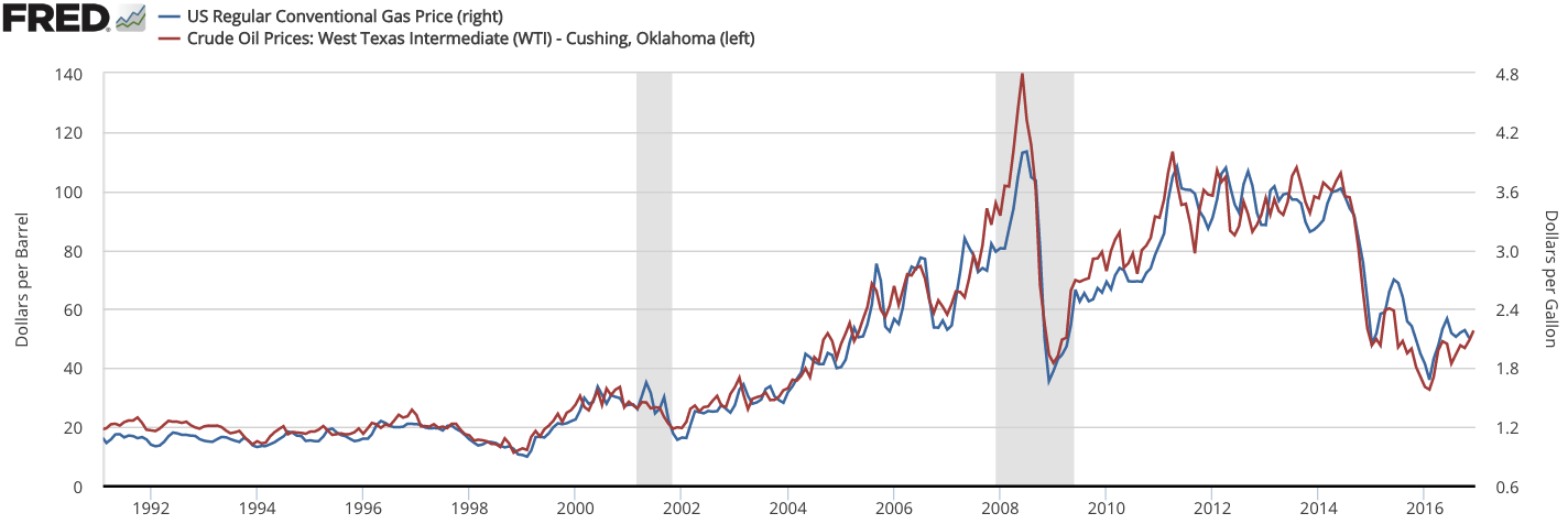 Oil_prices_to_gas_prices_graph